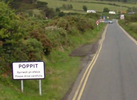 Poppit, and the road to the beach